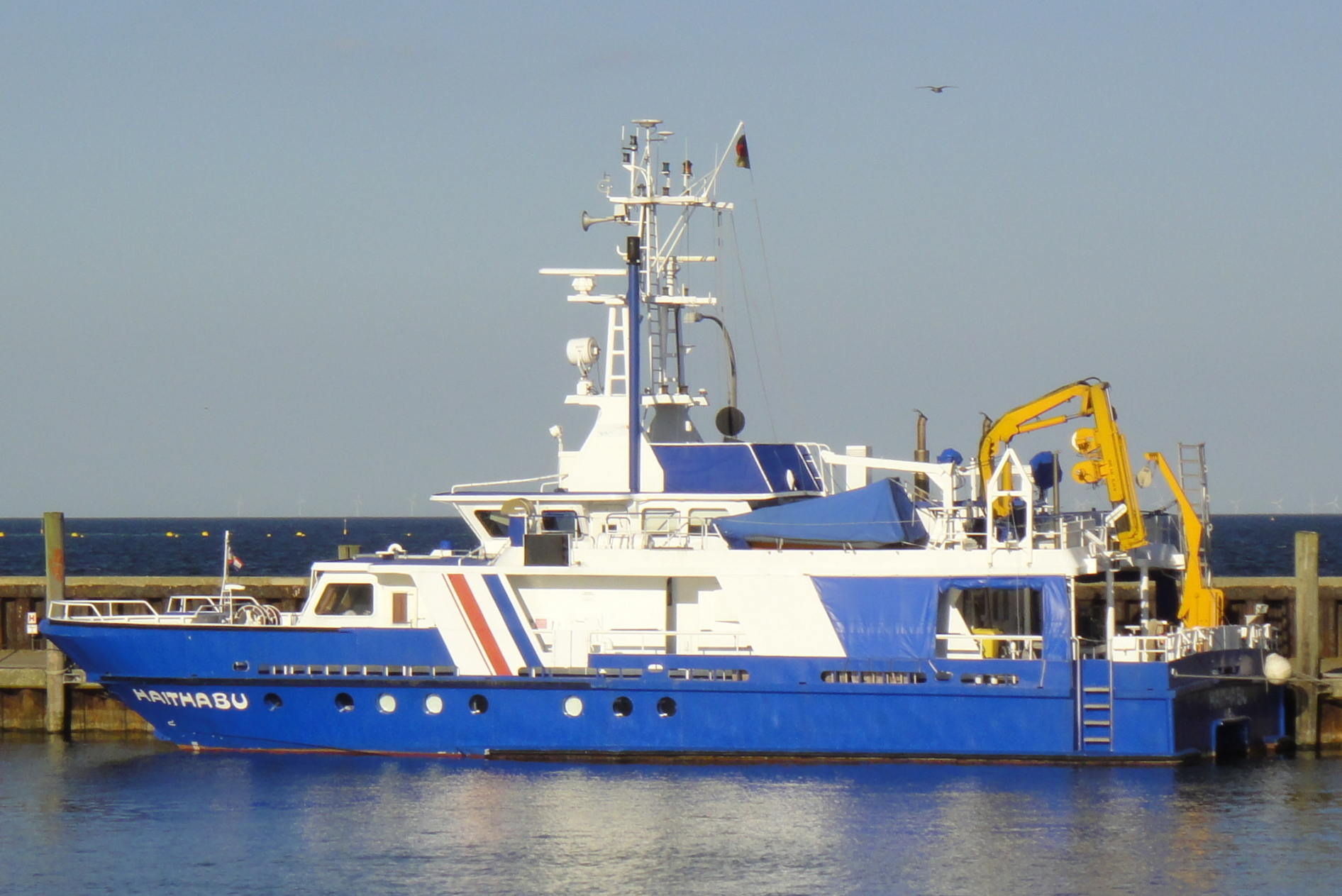 "Haithabu" research ship in Hörnum harbour, Sylt island, Germany